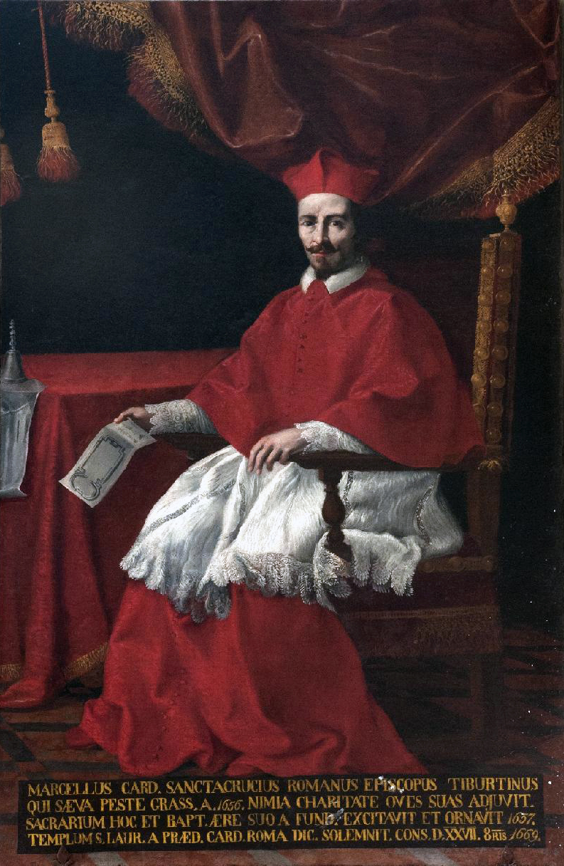 Ritratto del Cardinale Marcello Santacroce